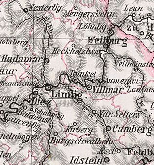 Detail from a map of Hesse.